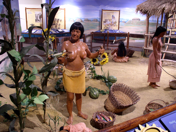 A diorama from the Angel Mounds site in Evansville, Indiana, a Mississippian culture settlement.